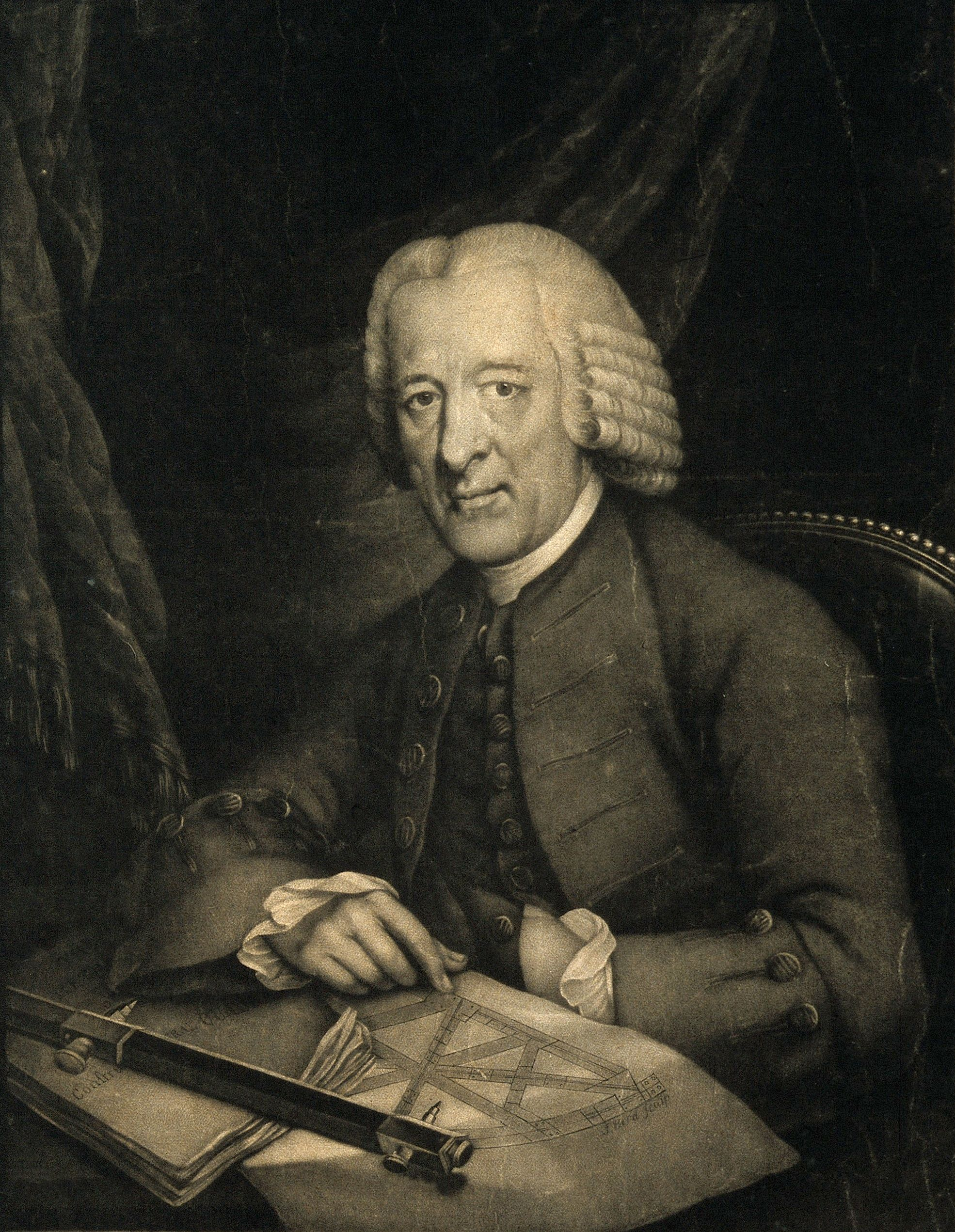 Portrait of astronomer and instrument maker John Bird